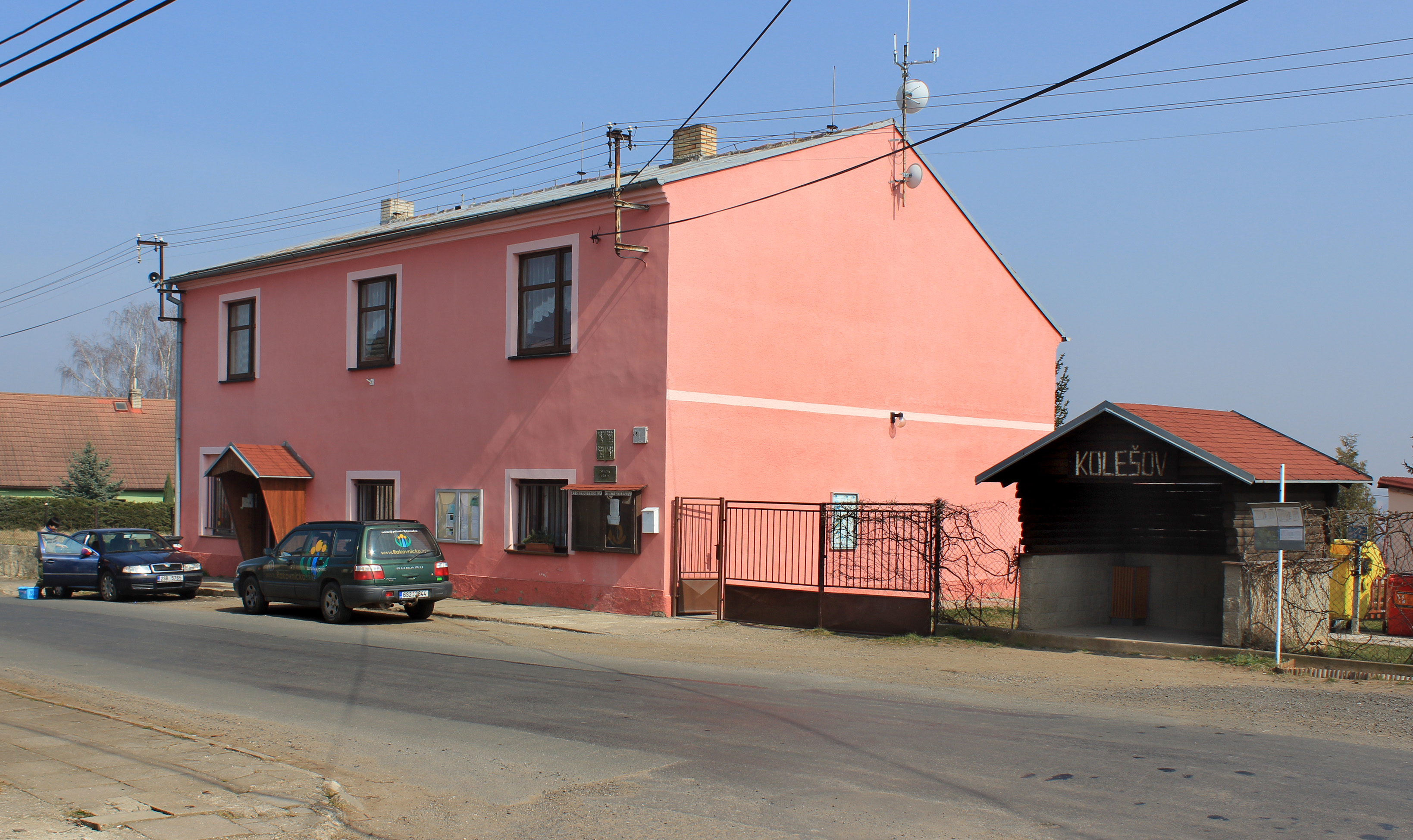 Municipal ofice in Kolešov, Czech Republic.